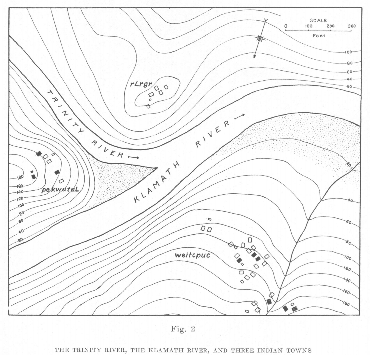 Maps of Yurok territory